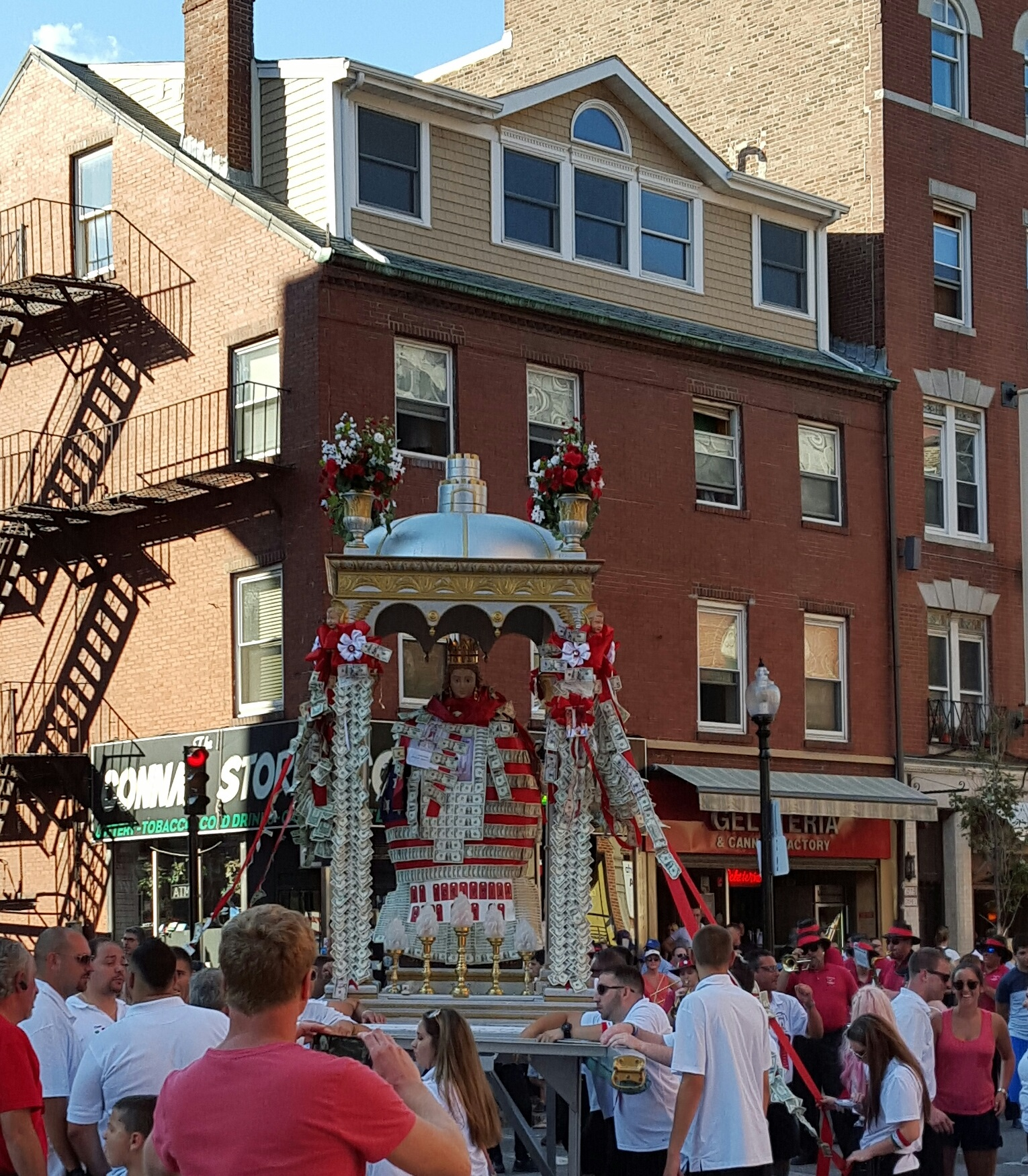 A life size statue of St. Agrippina di Mineo in a ornate canopy accompanied by the North End Marching Band in Boston.